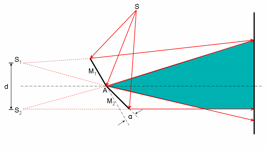 the interference of Fresnel double mirror